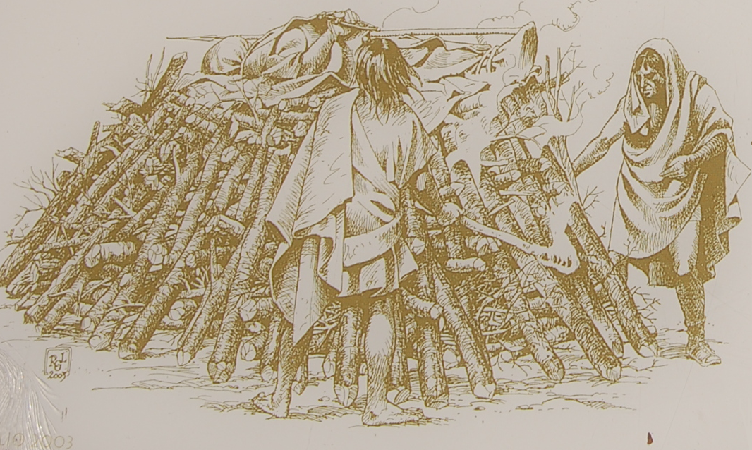 Information panel of necropoles or cementery of Herrería, in archaeological site of "El Ceremeño".